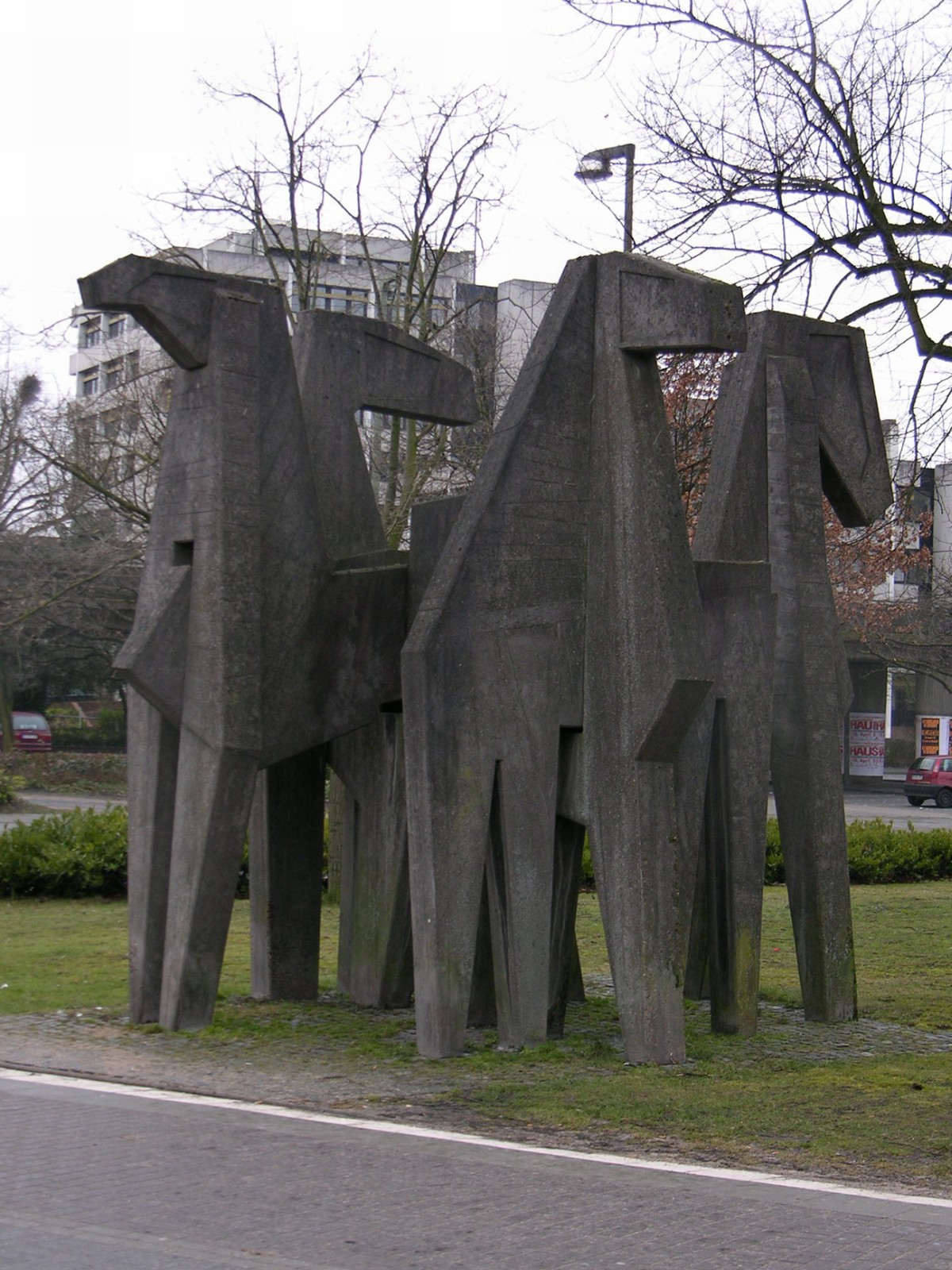 Statue "horses" (German: "Pferde") on the former horse market in Oldenbourg